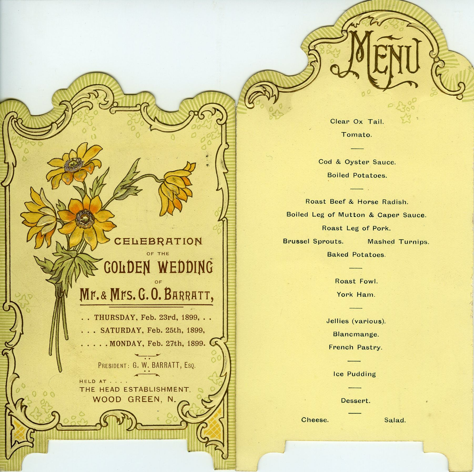 Scan of family heirloom - invitation card and menu for golden wedding